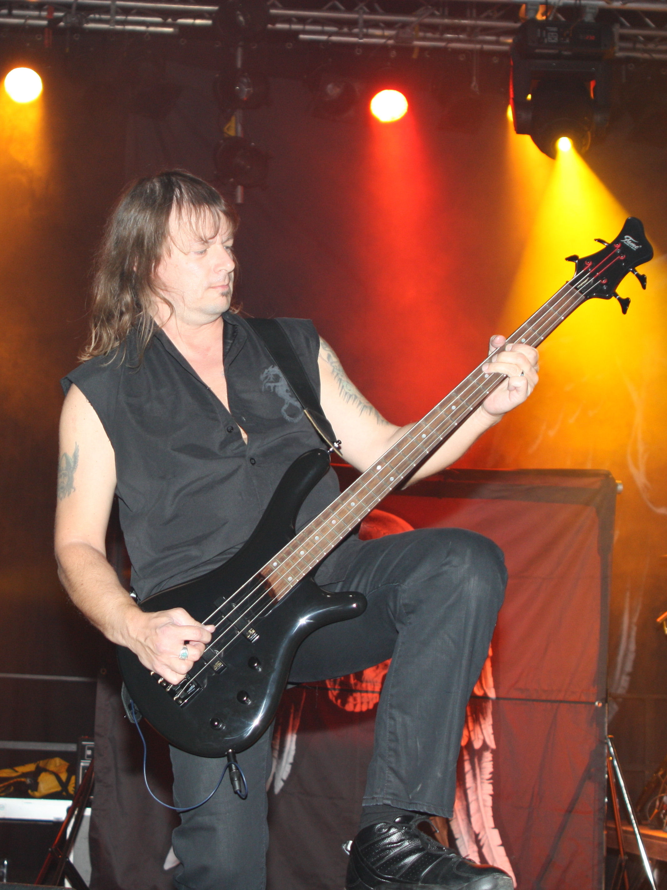 Jens Becker performing live with Grave Digger at the Maschinenhalle Zweckel in Gladbeck, Germany